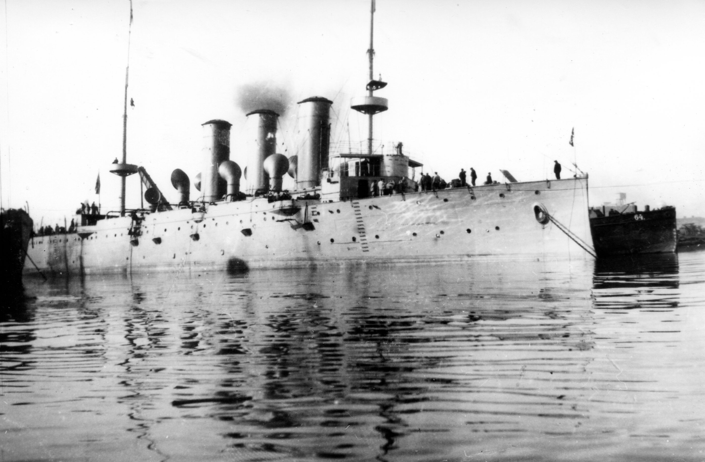 Imperial Russian cruiser Prut.